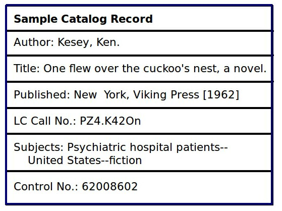 In library science, the card catalog would contain a record such as this one for a particular book. As bibliographic information went online, these were replaced by databases and were searchable electronically.